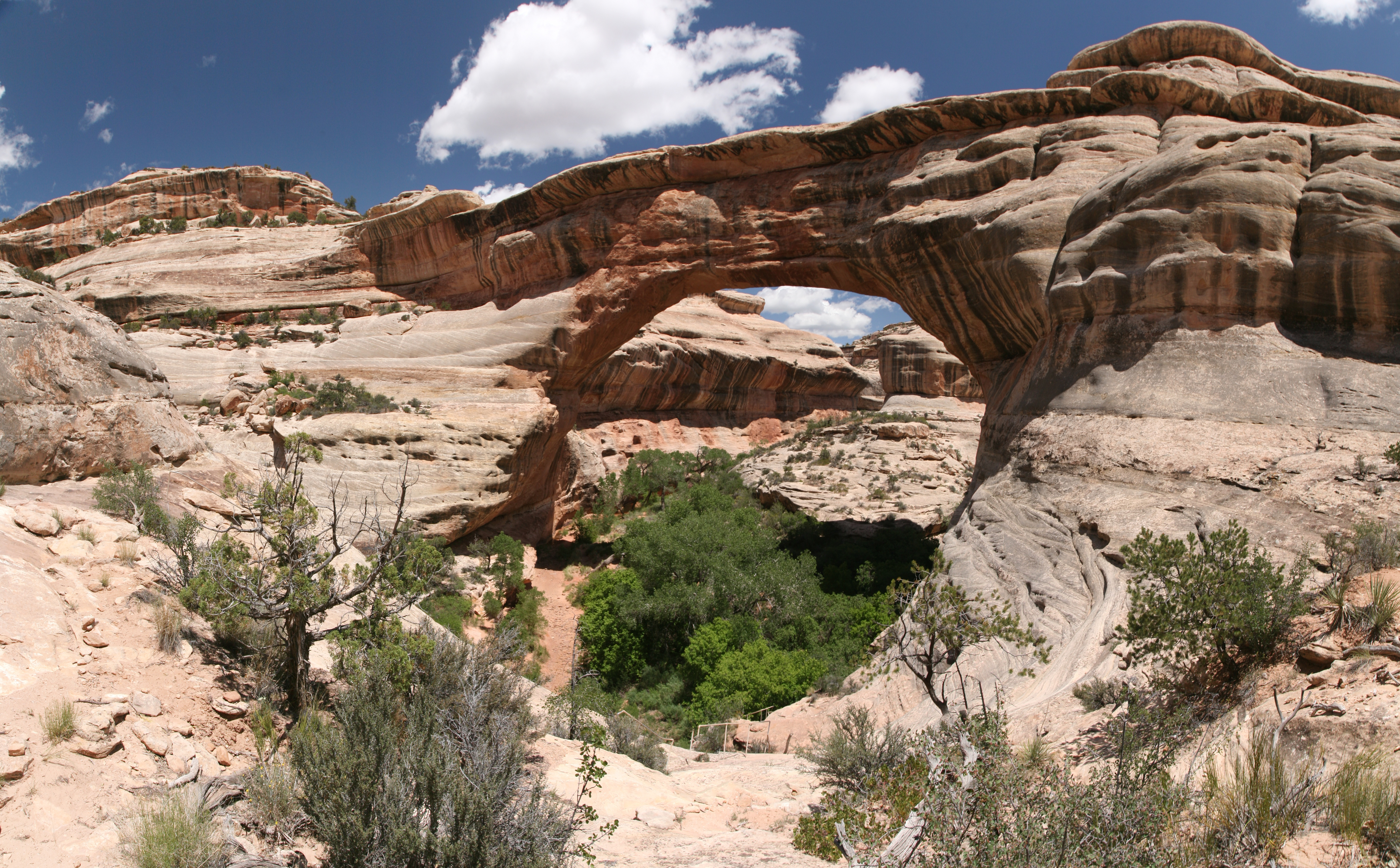 Sipapu Bridge in Natural Bridges National Monument, Utah, USA